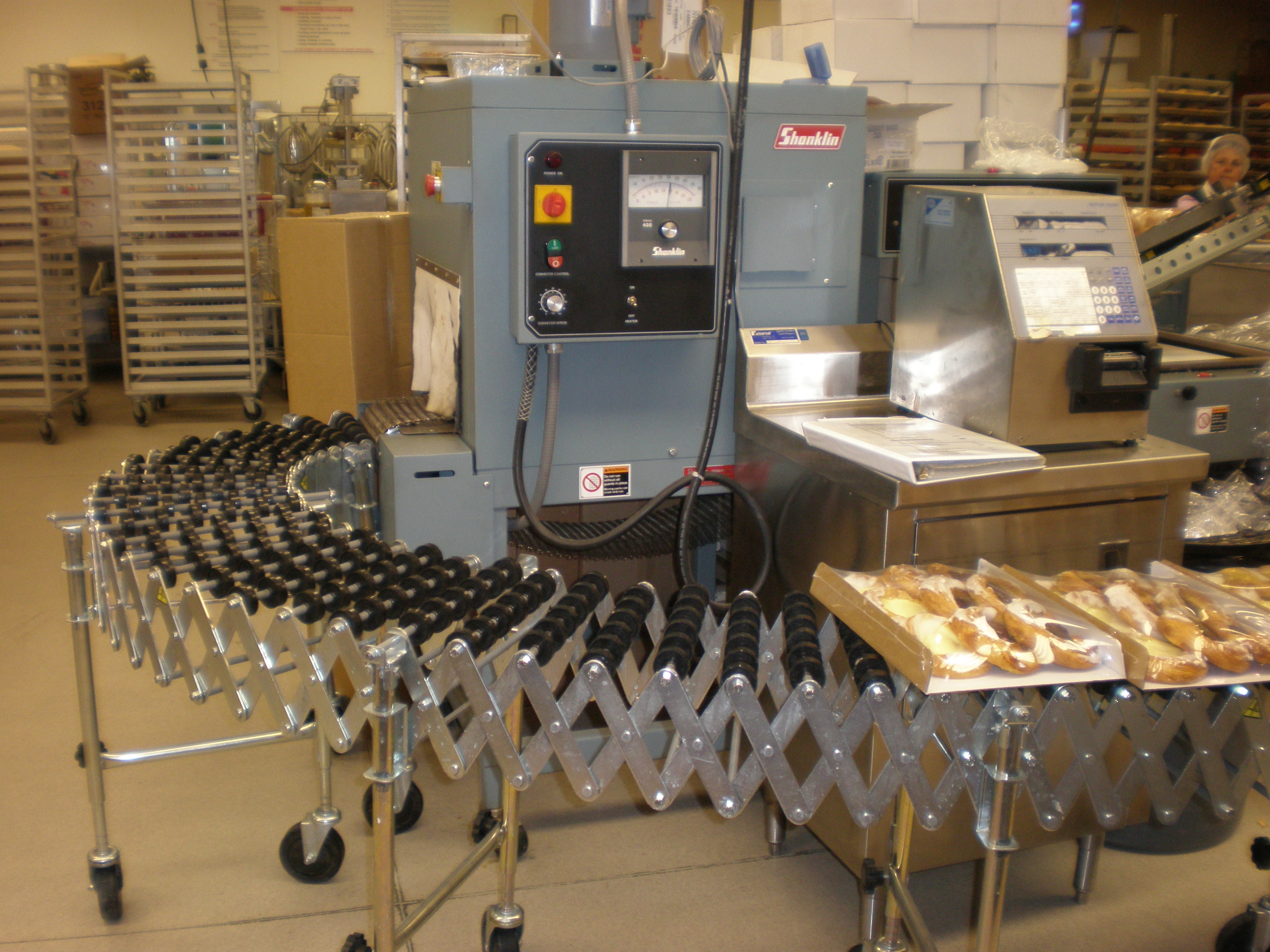 A section of the pastry packaging line at the bakery in the Costco Wholesale warehouse in South San Francisco, California.